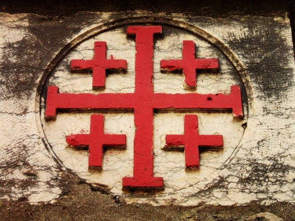 Croce di Terra Santa